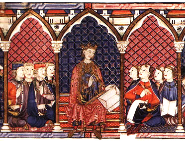 Miniature from "Cantigas de santa María". Detail.